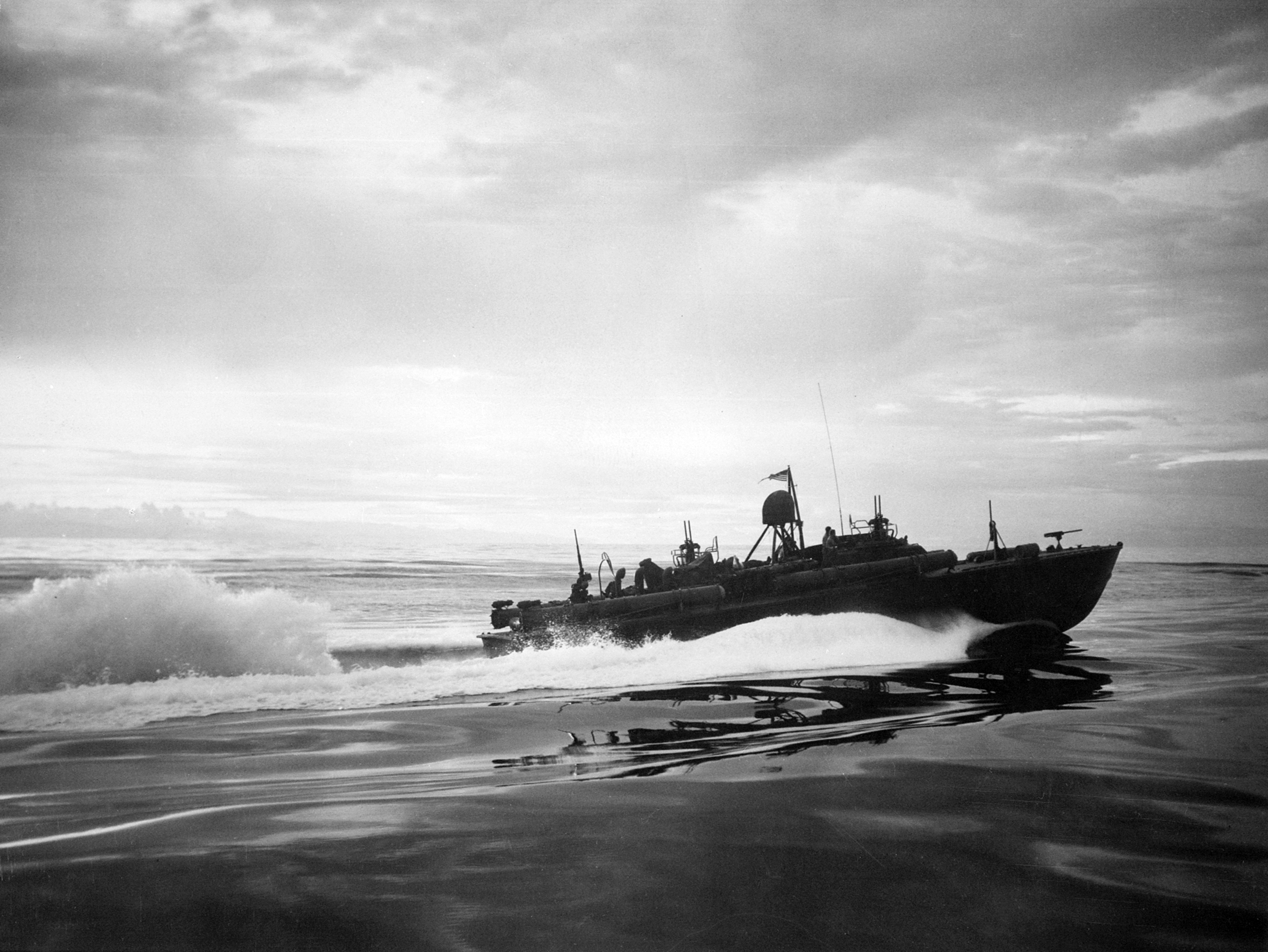 A U.S. Navy PT-boat patrolling off coast of New Guinea, 1943.